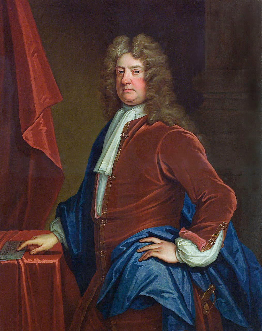 Admiral Edward Russell, 1653–1727 by Thomas Gibson, painted c. 1715 [1]